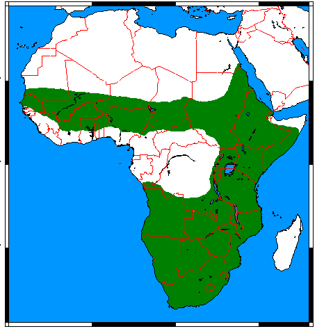 Striped Polecat (Ictonyx striatus) range map, made by me with help of Map depending on the range map at IUCN red list.